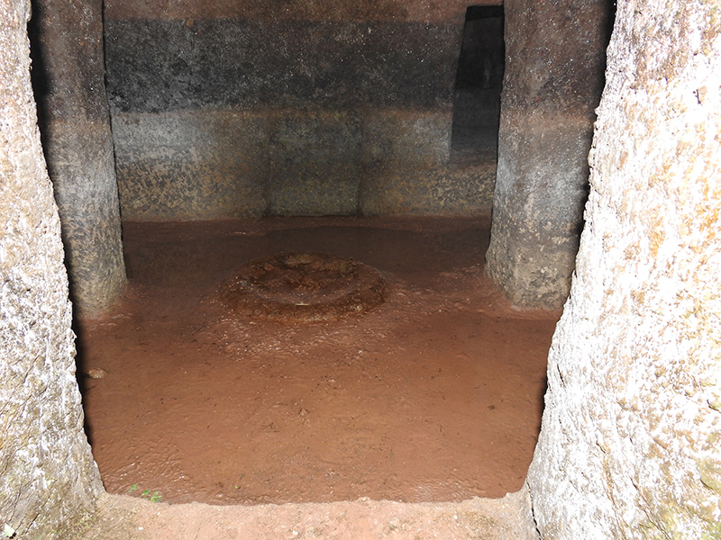 Cella con focolare centrale Tomba X Necropoli Santu Pedru